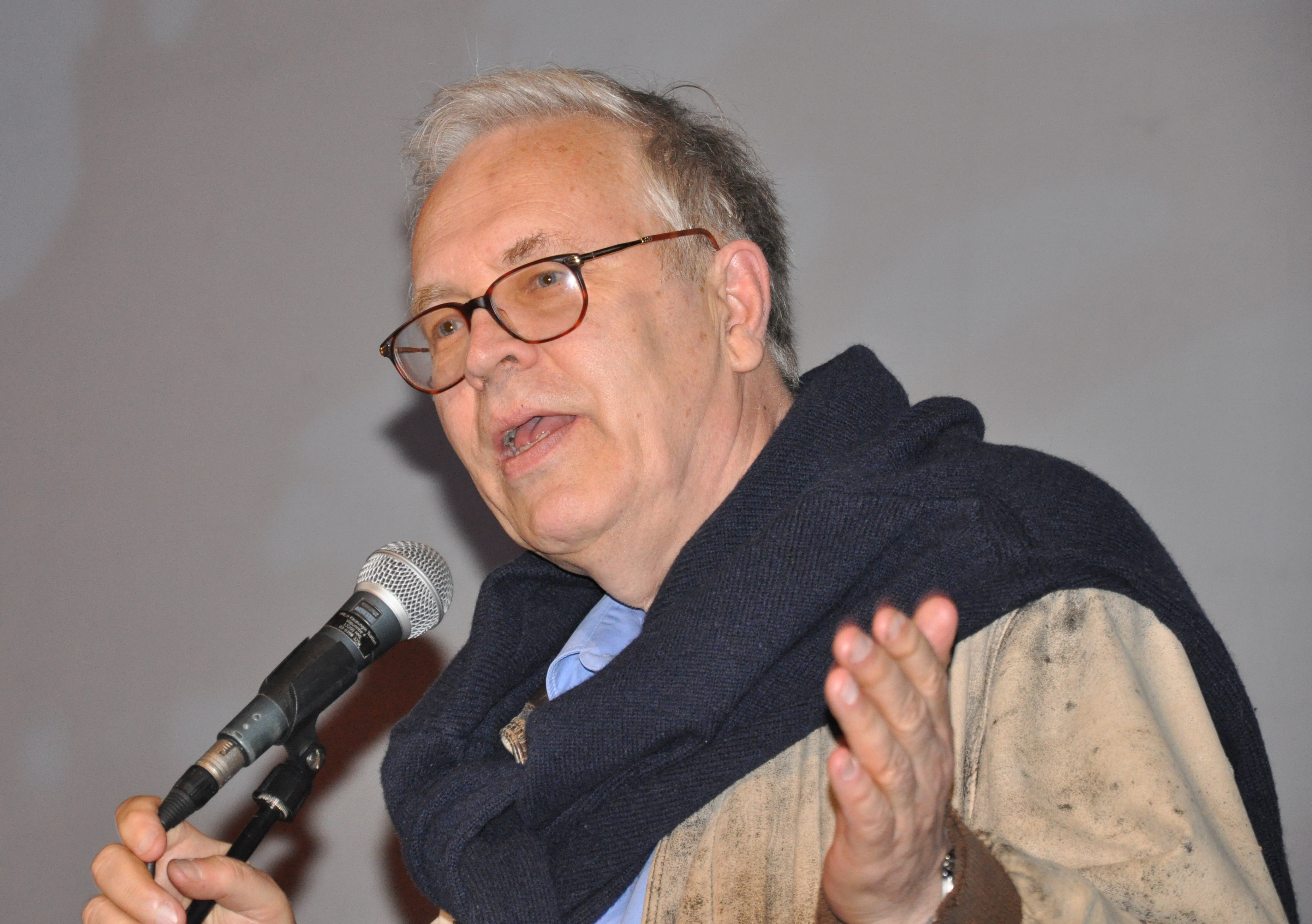 Finnish film historian and director Peter von Bagh at the Midnight Sun Film Festival in Sodankylä, Finland.